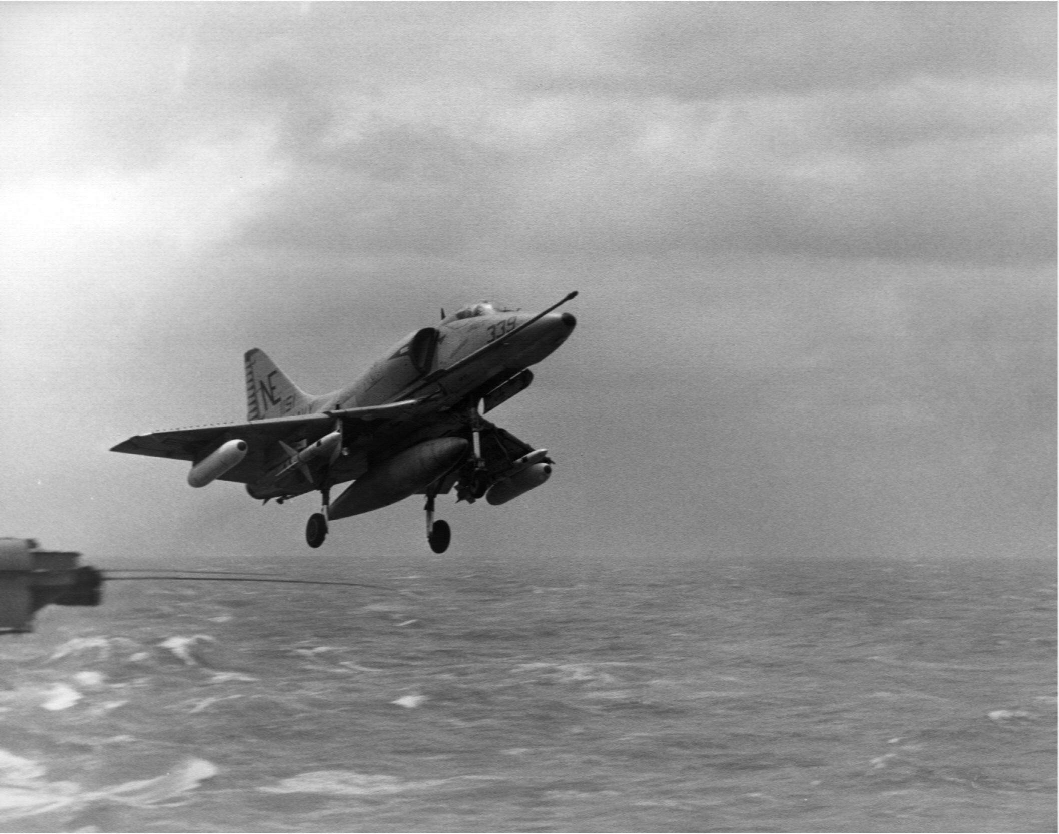 A U.S. Navy Douglas A-4E Skyhawk (BuNo 151151) of Attack Squadron 23 (VA-23) "Black Knights" is launched from the aircraft carrier USS Coral Sea (CVA-43) for a mission in Vietnam. VA-23 was assigned to Carrier Air Wing 2 (CVW-2) aboard the Coral Sea for a deployment to Vietnam from 29 July 1966 to 23 February 1967. The aircraft is armed with AGM-45 Shrike missiles and LAU-3 rocket launchers.